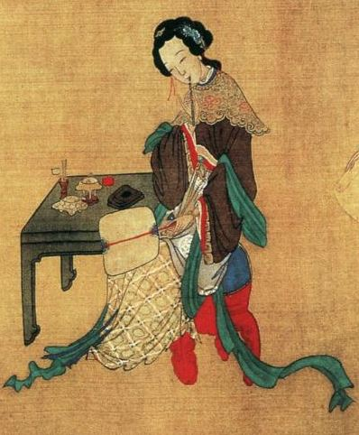 A lady from "Beauties in History".